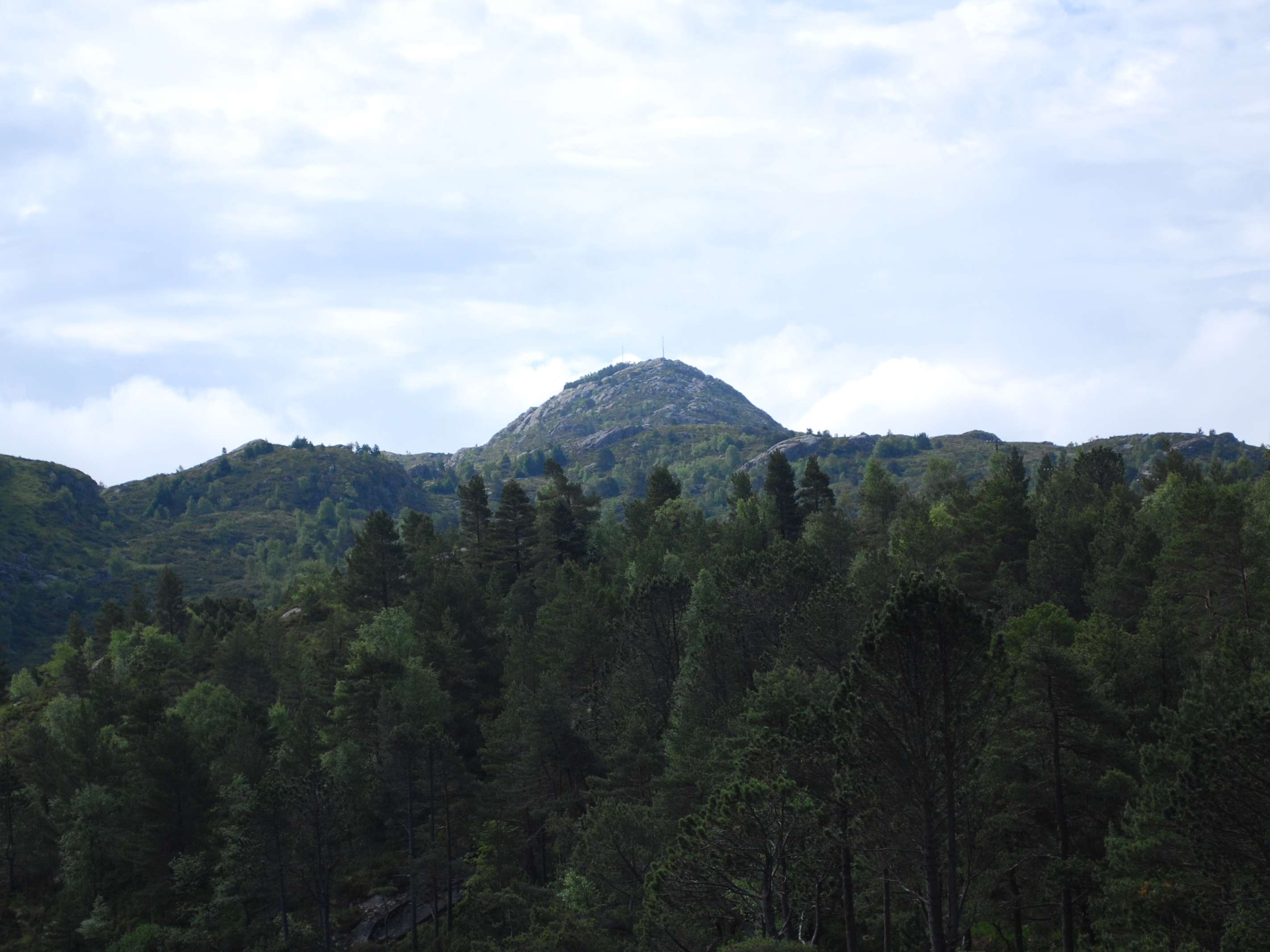 Description=Lyderhorn